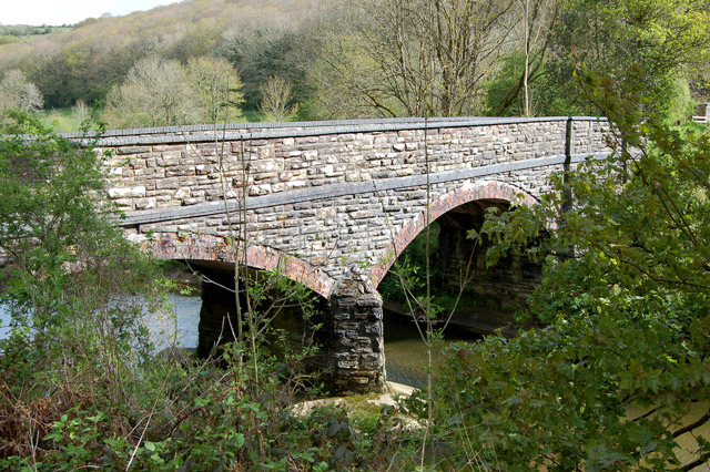 Bridge at Polbrock This bridge carries the lane from Burlawn to Sladesbridge over the River Camel.